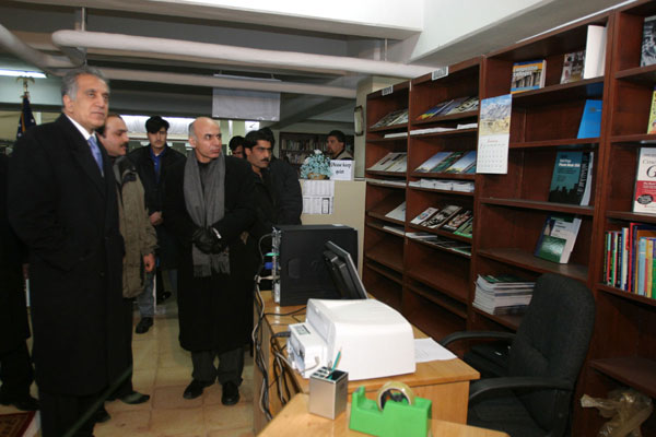 On Saturday, February 12, Ambassador and Special Presidential Envoy Zalmay Khalilzad and Chancellor of Kabul University Dr. Ghani opened the U.S. sponsored American Corner at Kabul University. Ambassador Khalilzad also announced the establishment of an English language-training program for Kabul University.